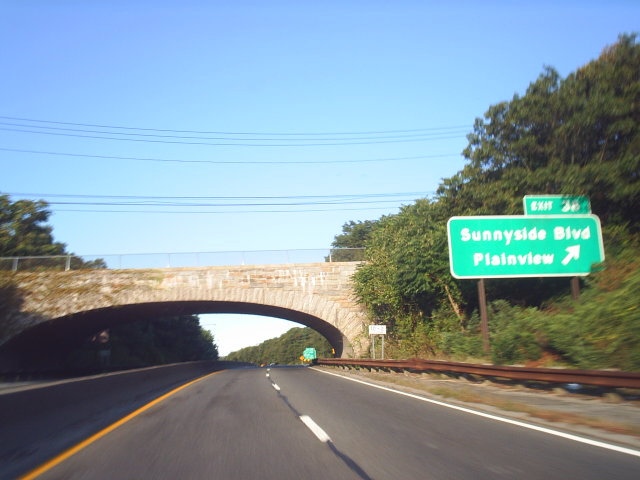 The Northern State Parkway west at Exit 38 (Sunnyside Boulevard) in Plainview.